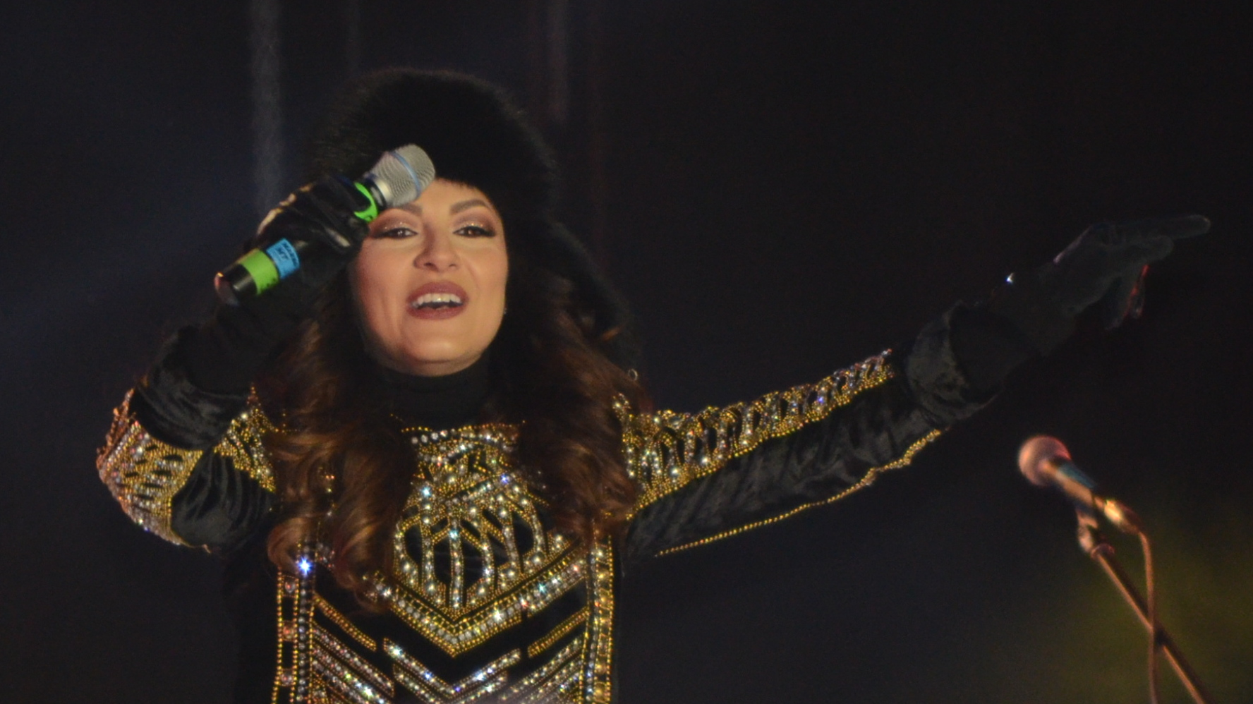 Romanian singer Andra